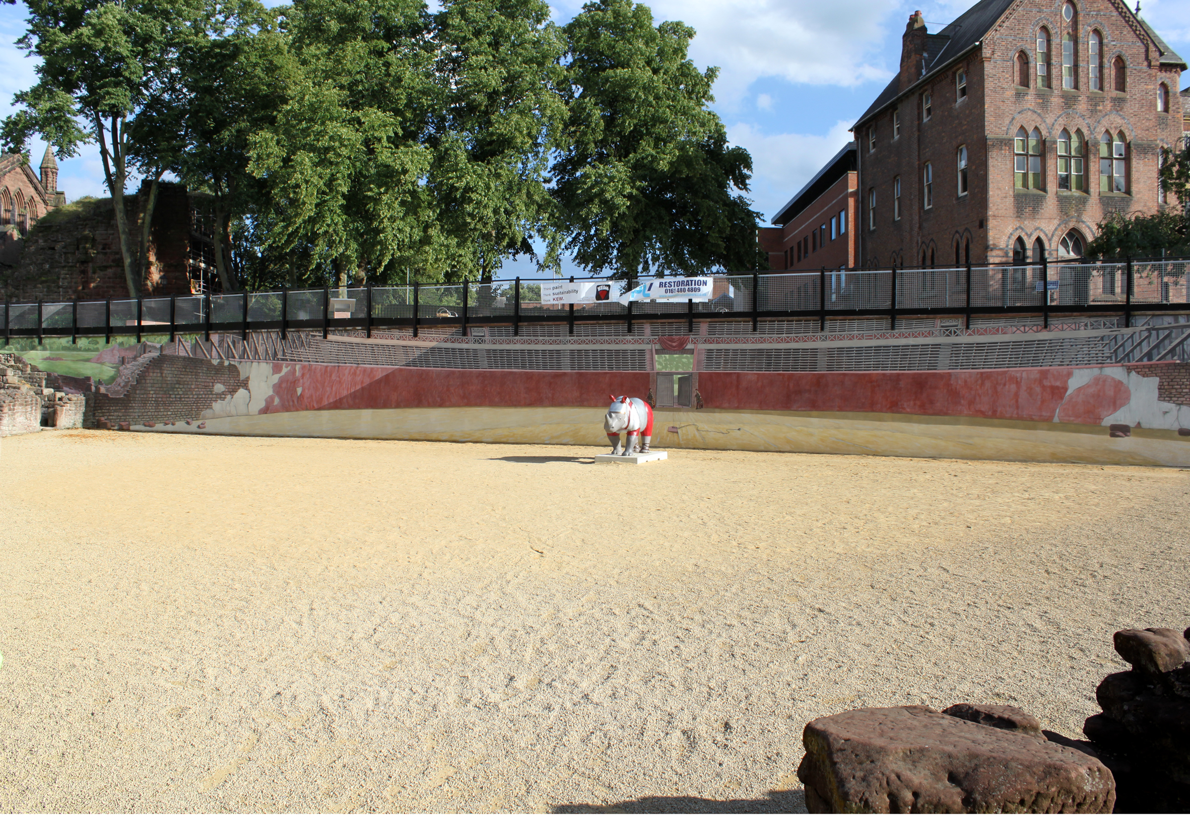 hand painted trompe l'oeil mural in Chester's Roman amphitheatre by Gary Drostle. Photograph taken on day of completion from ideal viewing angle.